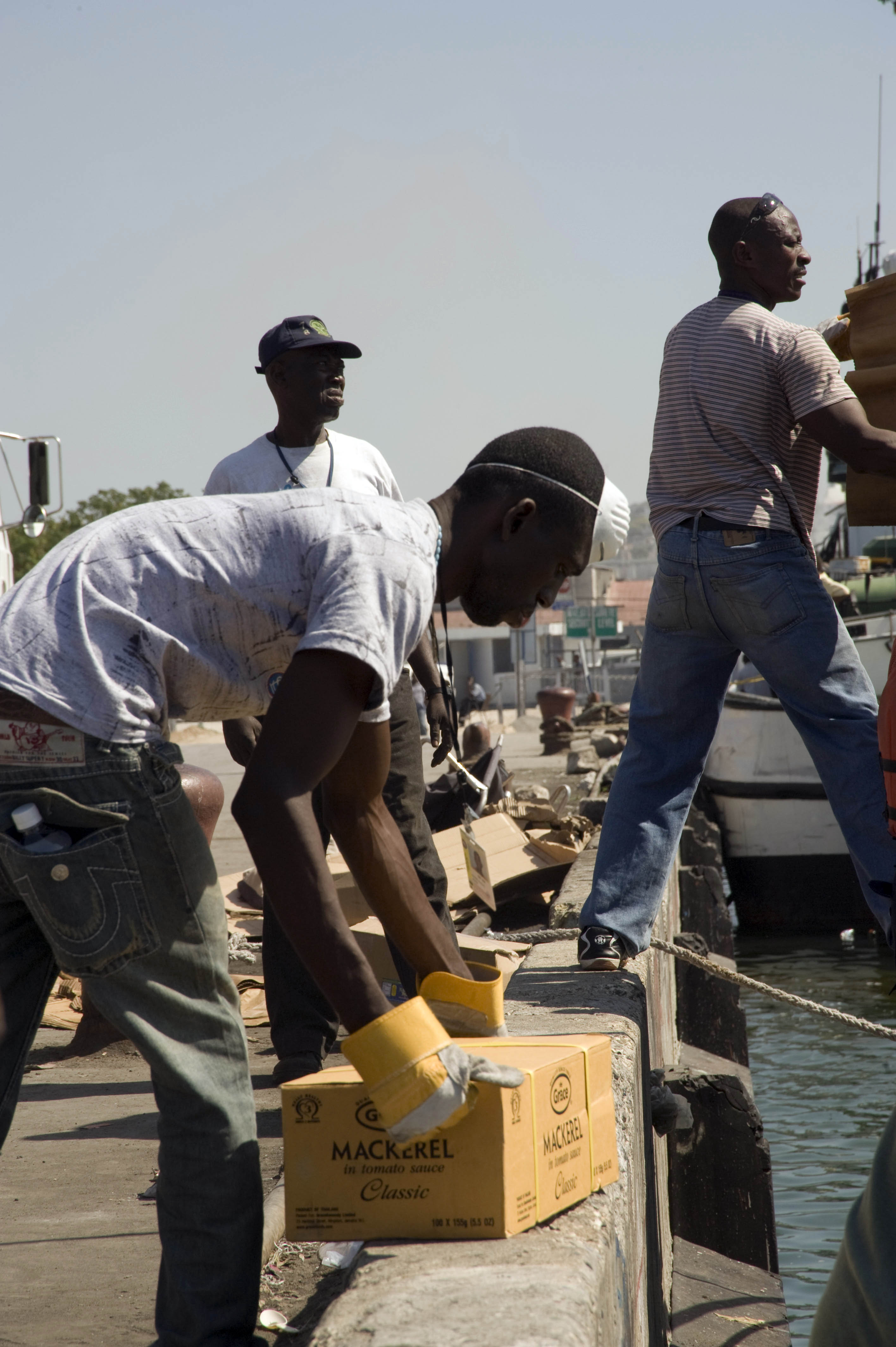 PORT-AU-PRINCE, Haiti (Jan. 18, 2010) Members of the Jamaican Defense Forces Coast Guard unload supplies in Port-au-Prince. Relief workers from around the world are providing aid to the population of Haiti following a 7.0 magnitude earthquake on Jan. 12, 2010. (U.S. Navy photo by Mass Communication Specialist 2nd Class Chris Lussier/Released)